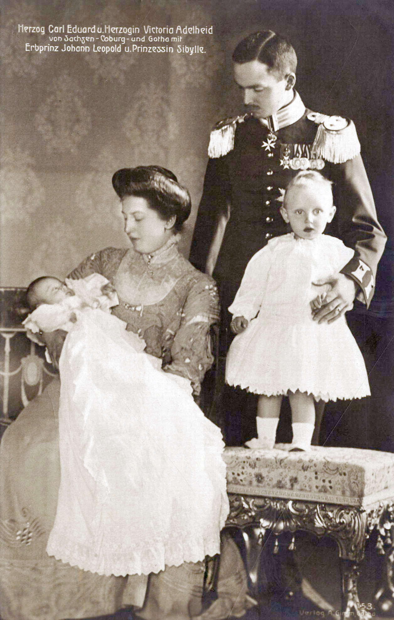 Charles Edward, Duke of Saxe-Coburg and Gotha and his wife Princess Victoria Adelaide of Schleswig-Holstein with their children Johann Leopold and Princess Sibylla of Saxe-Coburg and Gotha.